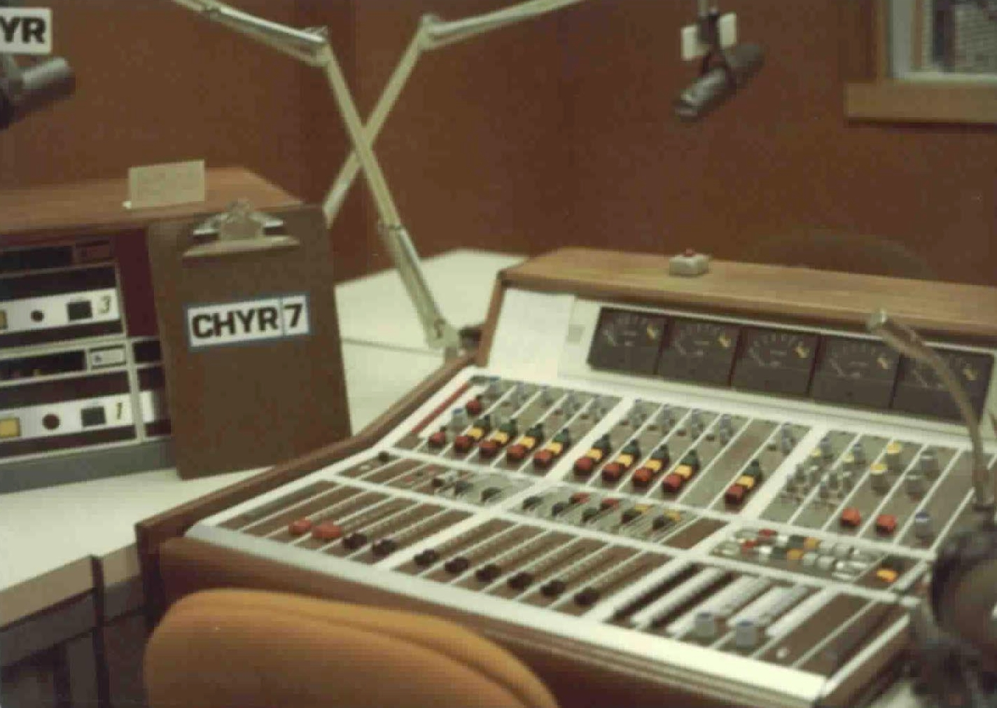 Talbot St. Studio